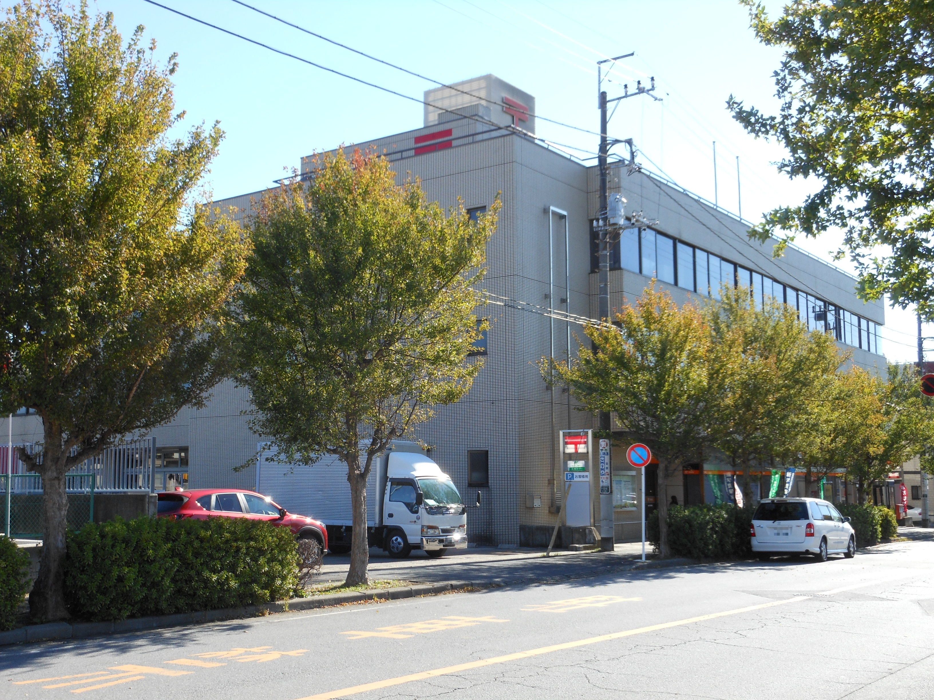 This is the Abiko post office in Abiko, Chiba, Japan.